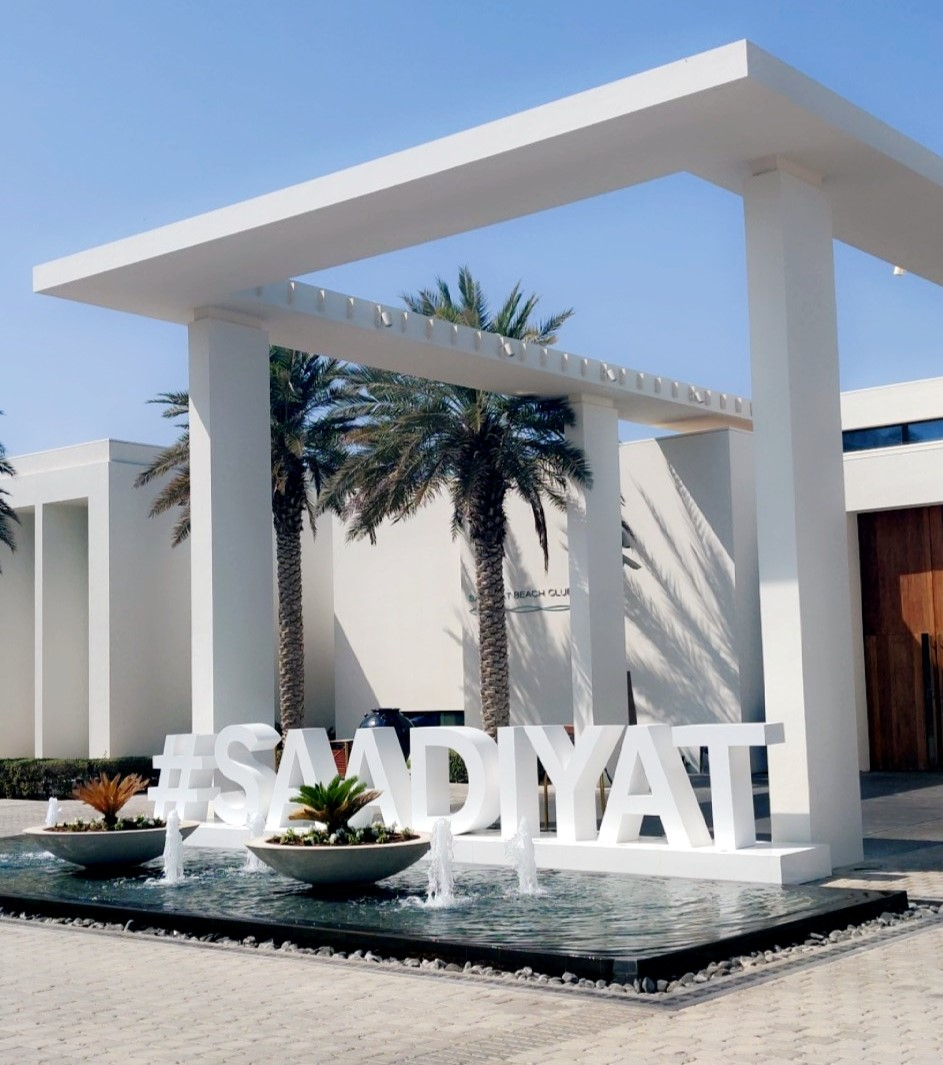 Front entrace of Saadiyat Island Beach Club in Saddiyat Island, Abu Dhabi.